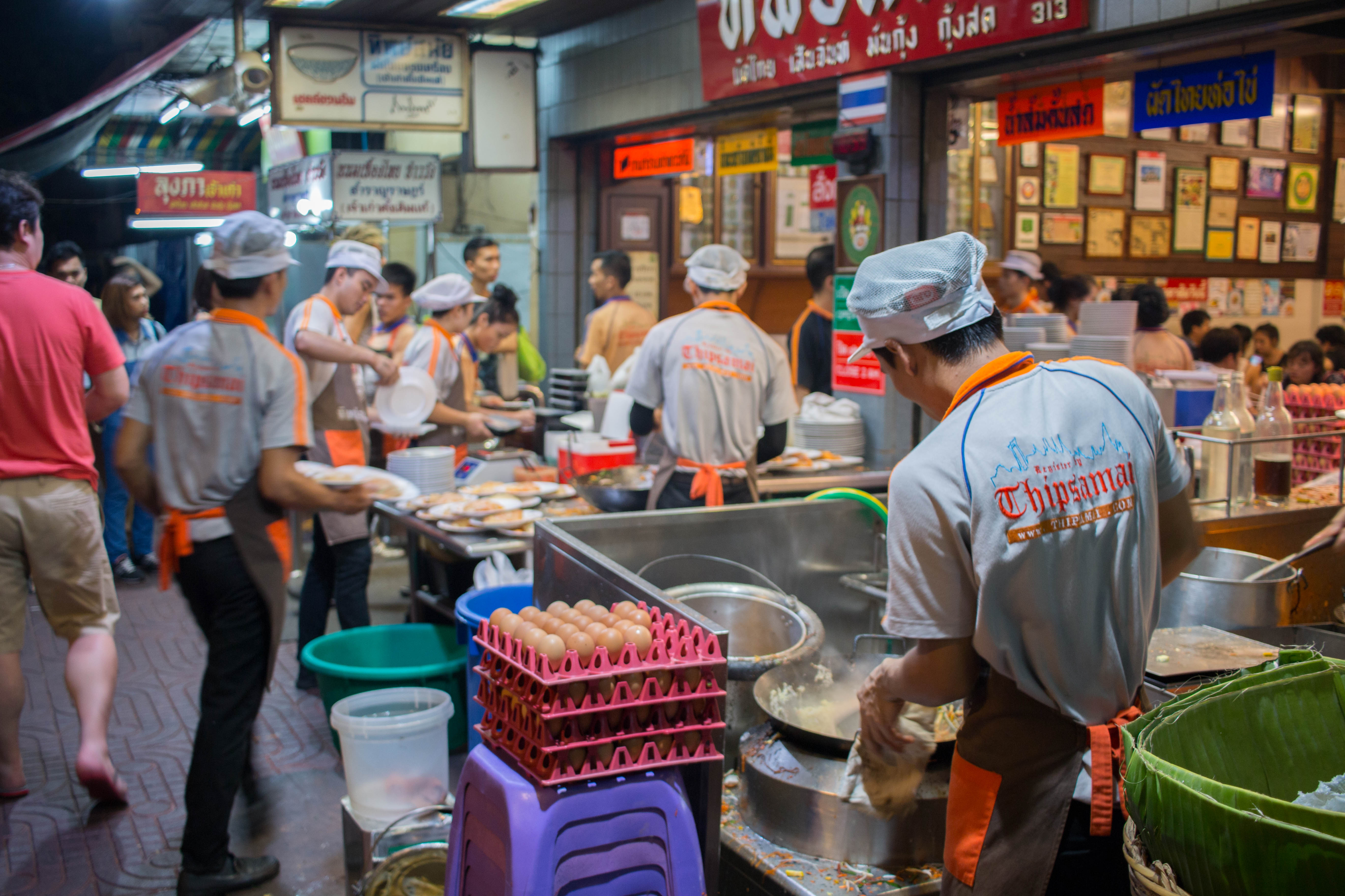 Thipsamai, a famous pad thai restaurant in Bangkok